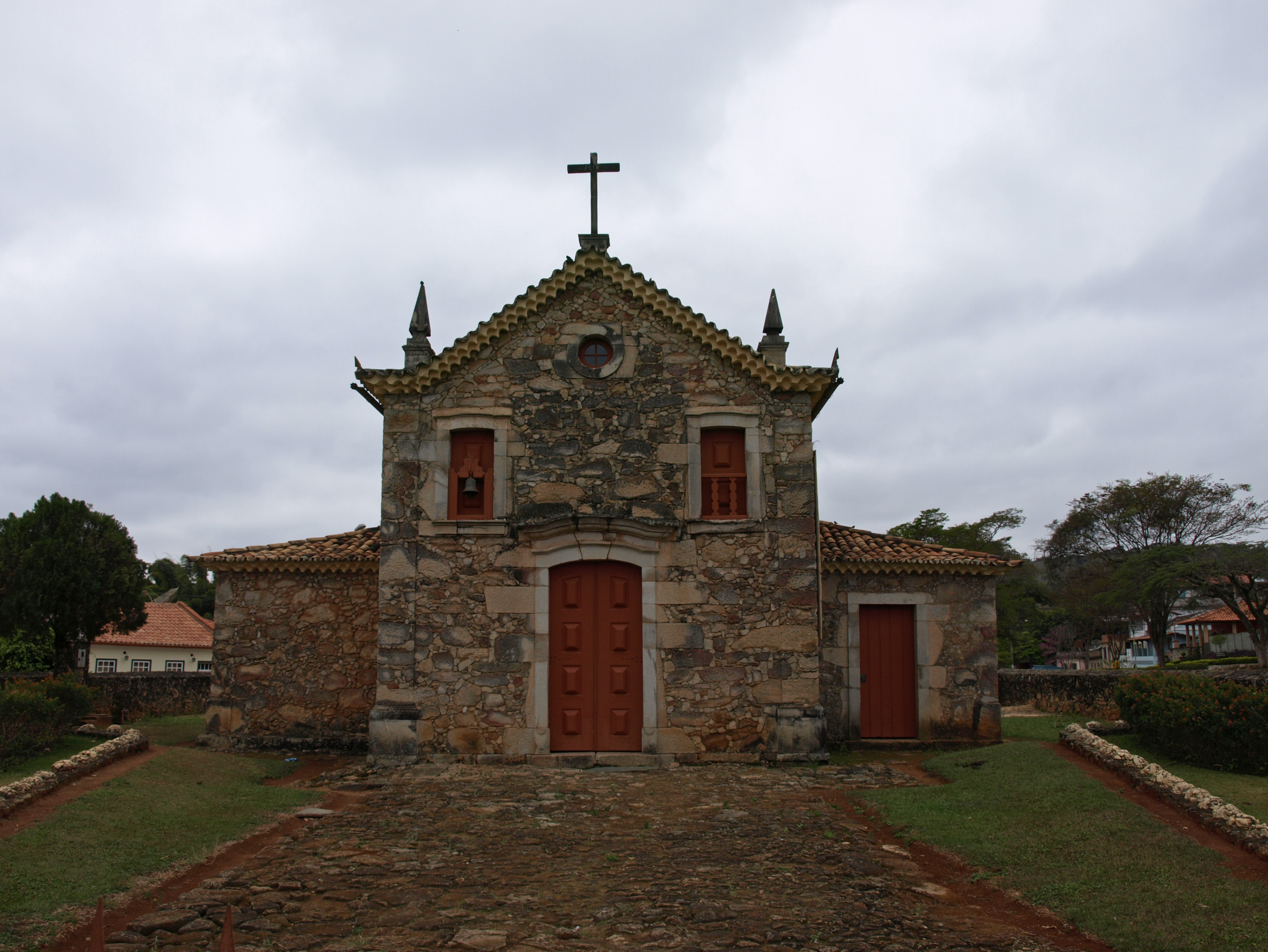 Capela de Nossa Senhora do Rosário (1717), Coronel Xavier Chaves, Minas Gerais, Brazil